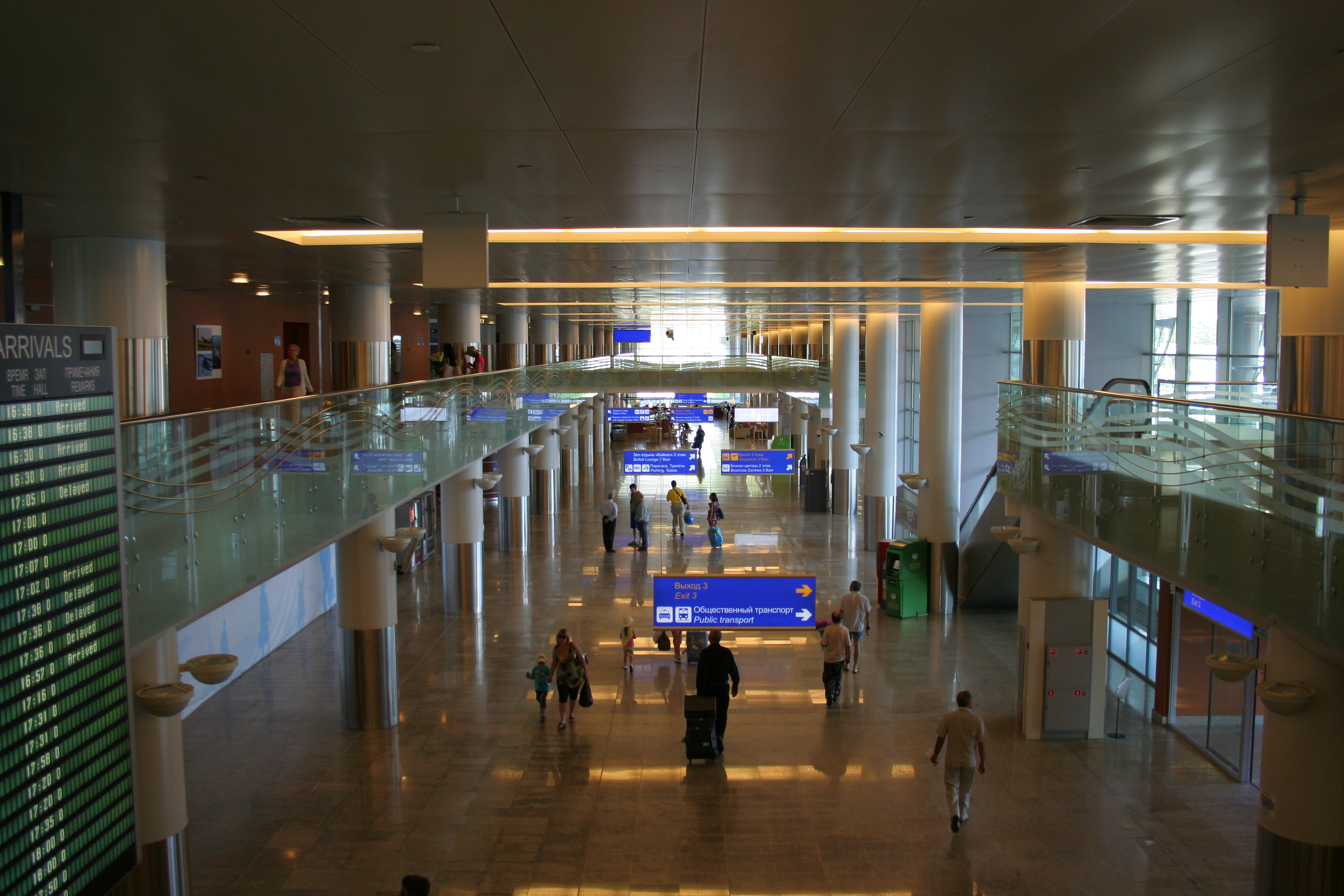 Sheremetyevo Airport of Moscow. Terminal D. View inside.